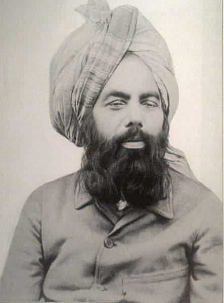 Mirza Ghulam Ahmad of Qadian (1835-1908). The photograph was taken in November 1907 by a traveller from Russia named Dickson (or Dixon) who vistied Qadian.